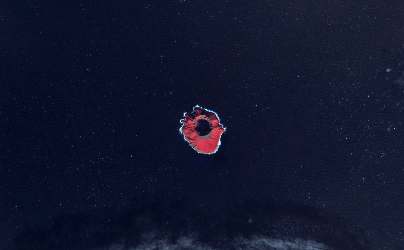 Tiny Kasatochi Volcano created a big mess in August 2008, spewing ash and sulfur dioxide over the Aleutian Islands. The volcano erupted with little warning on August 7, 2008. No one was hurt, but two biologists were evacuated from the island just hours before the eruption. According to the Associated Press, the ash forced Alaska Airlines to cancel 44 flights between Alaska, Canada, and the continental United States. Until the eruption, the steep-sided volcano harbored a small lake inside its 314-meter (1000-foot) summit, and vegetation (red in this image) covered the slopes. Cliffs along the shoreline may be the result of erosion from heavy surf, visible as a white fringe around the island. Kasatochi had not erupted in at least 200 years. This image, composed of near-infrared, red, and green wavelengths of light, was acquired by the Advanced Spaceborne Thermal Emission and Reflection Radiometer (ASTER) on NASA’s Terra satellite on September 23, 2003. References Rozell, N. (2008, August 14). Tiny Aleutian island has big impact. Alaska Report. Accessed August 15, 2008. Alaska Volcano Observatory, (2008, August 14). Alaska Volcano Observatory Karatochi Eruption Page. Accessed August 15, 2008.